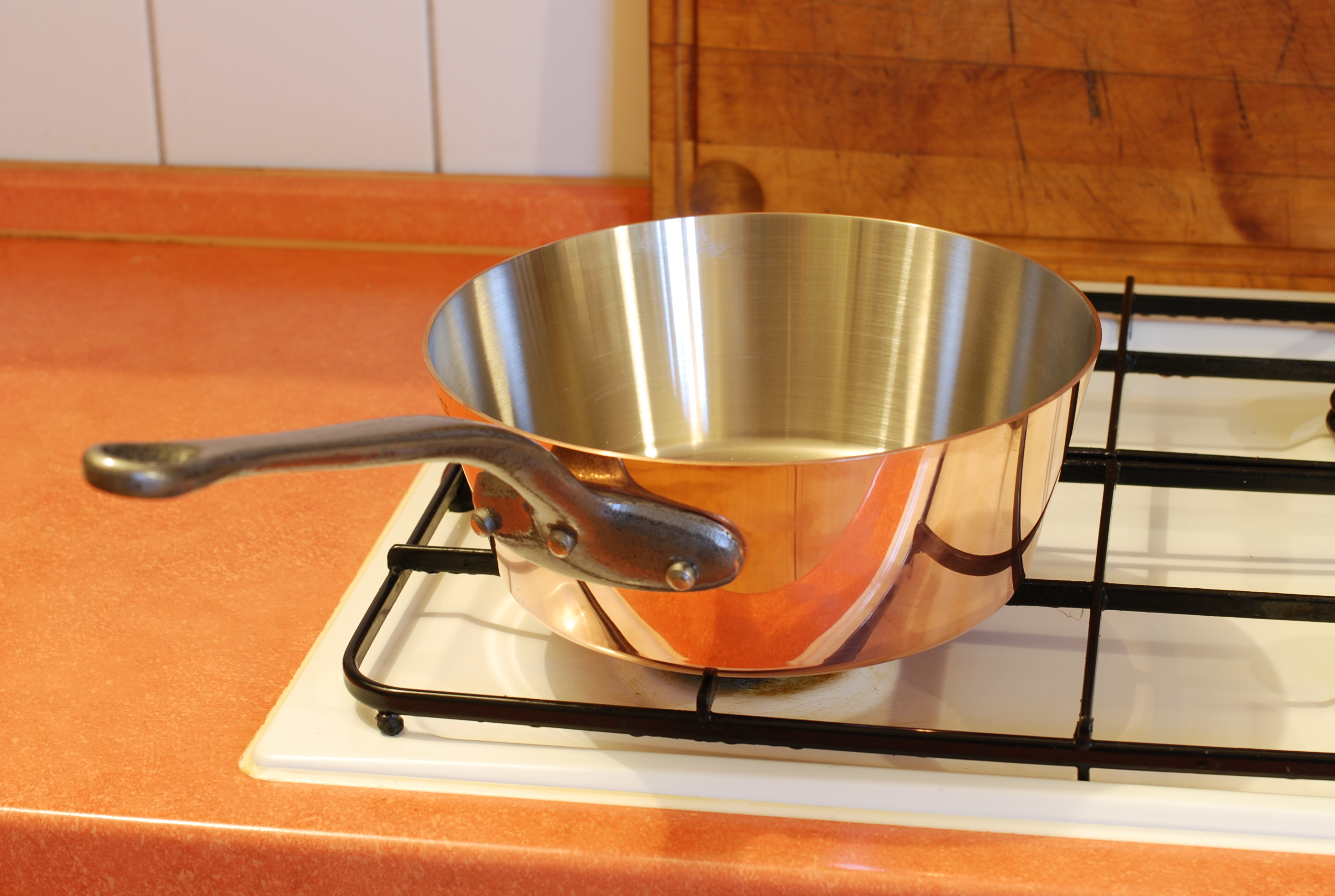 Copper pan, in France called Sauteuse. Diametre 24 cm. Manufacturer: Mauviel. Inner layer is stainless steel.